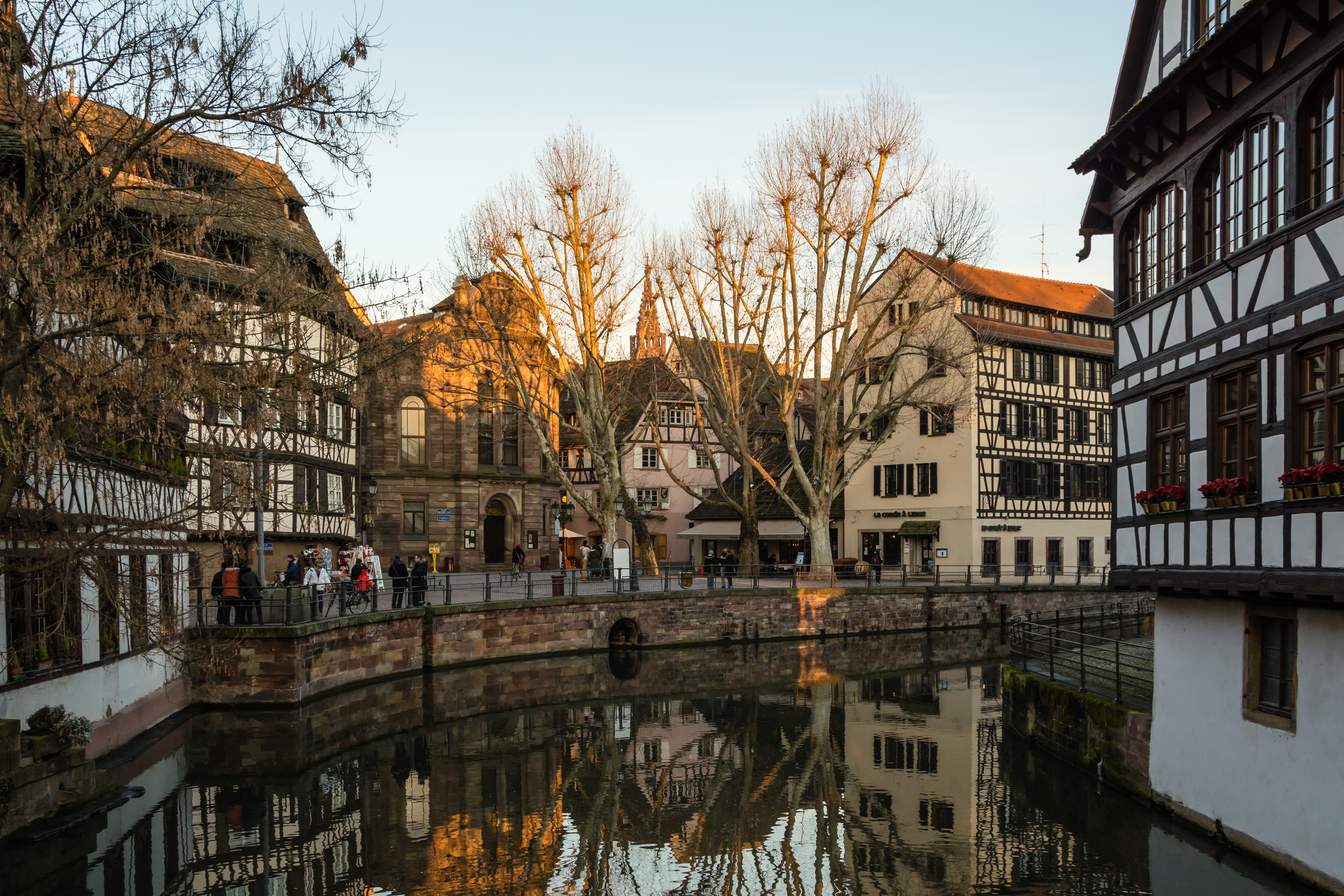 Place Benjamin Zix seen from Pont du Faisan